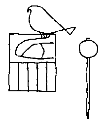 Clay mark with the name of the protodynastic king Scorpion II., found at Minshat Abu Omar.